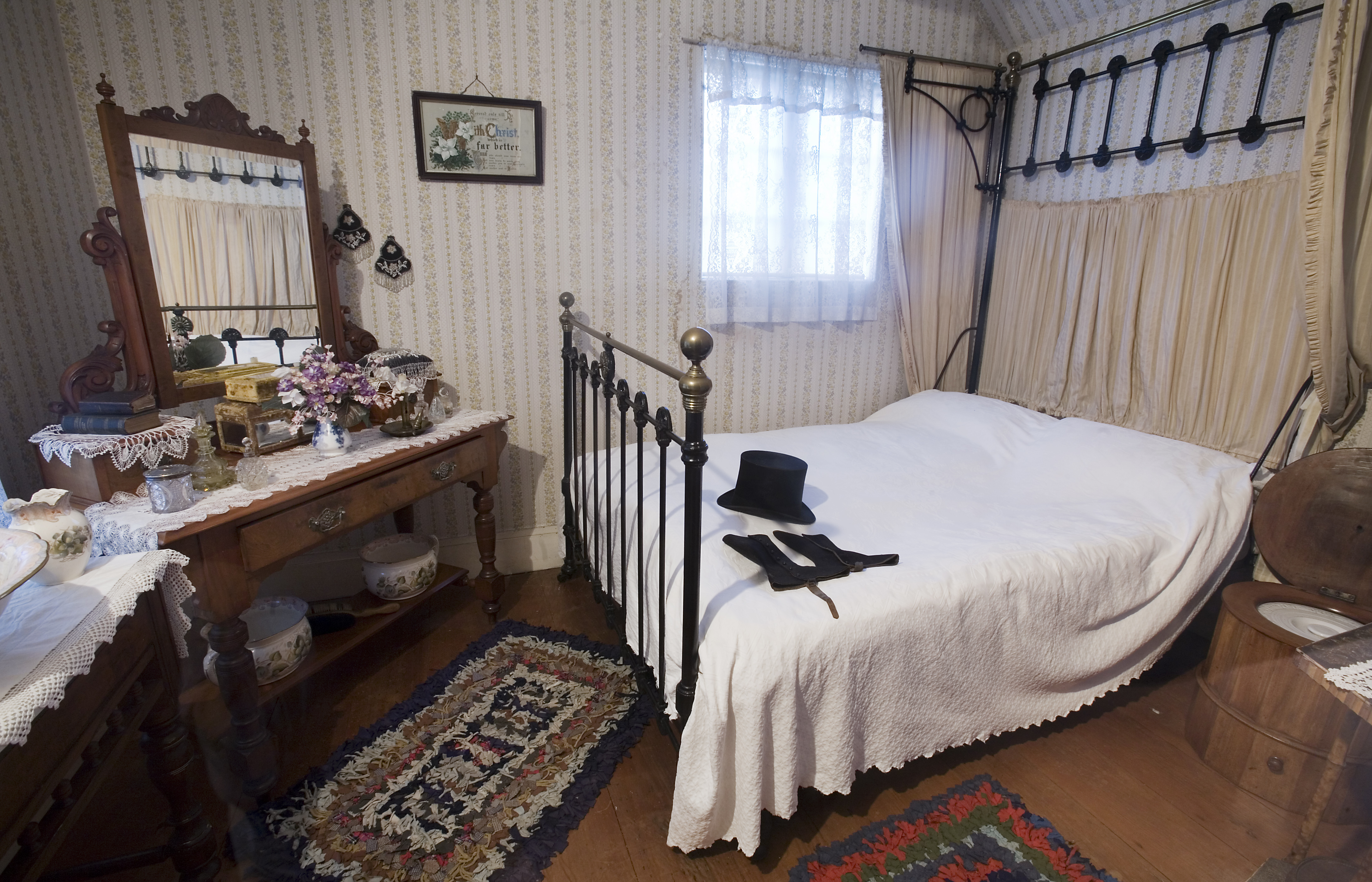 A 19th century bedroom with a top hat over the bed. Victorian Village, Museum of Transport and Technology (MOTAT) , Auckland, New Zealand.